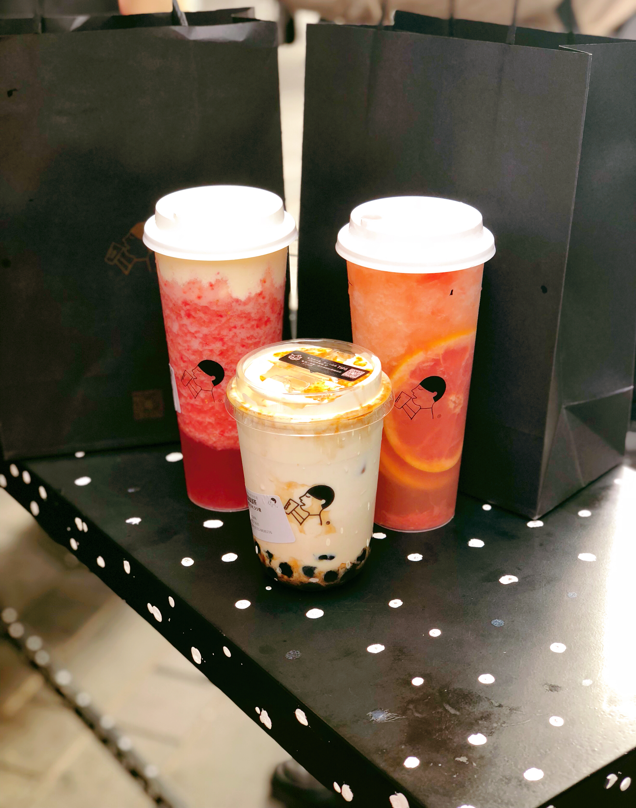 product picture